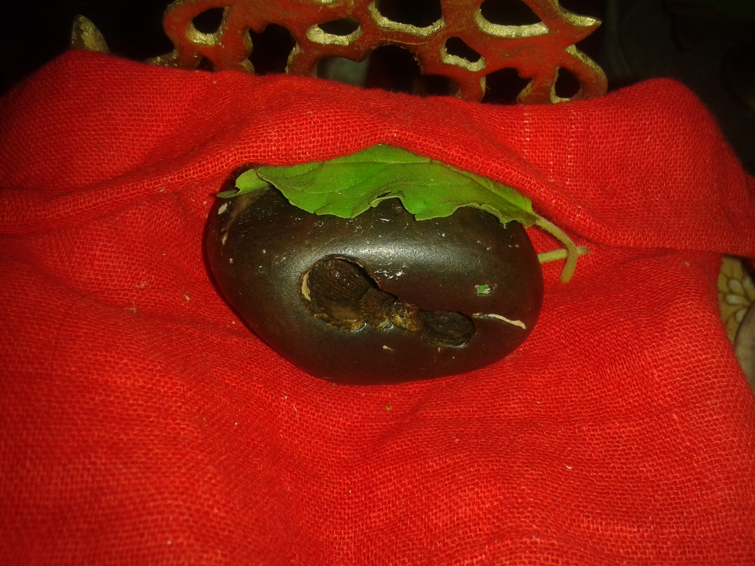 Lakshmi-Narasimha Shaligram Shila